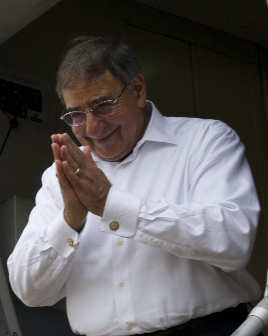 Secretary of Defense Leon E. Panetta gives the traditional Cambodian thank you from the steps of his aircraft before departing Siem Reap, Cambodia, on Nov. 16, 2012. Panetta was in Cambodia to talk to his counterparts during the Association of Southeast Asian Nations defense ministers meeting. The association with member states of Burma, Brunei Darussalam, Cambodia, Indonesia, Laos, Malaysia, the Philippines, Singapore, Thailand and Vietnam was formed in 1967.